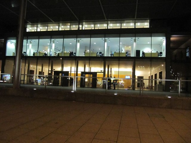 Working late After coming out of a Flickr meeting at the Jam factory I was surprised to see people still working in the Said Business centre.